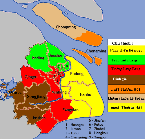 An outdated and inaccurate Vietnamese-language map of Shanghai's administrative divisions. Pudong's Jiuduansha Shoals not shown and the exclaves of Jiangsu in northern Chongming not noted. Nanhui and Luwan Districts have since merged with Pudong and Huangpu Districts, respectively.